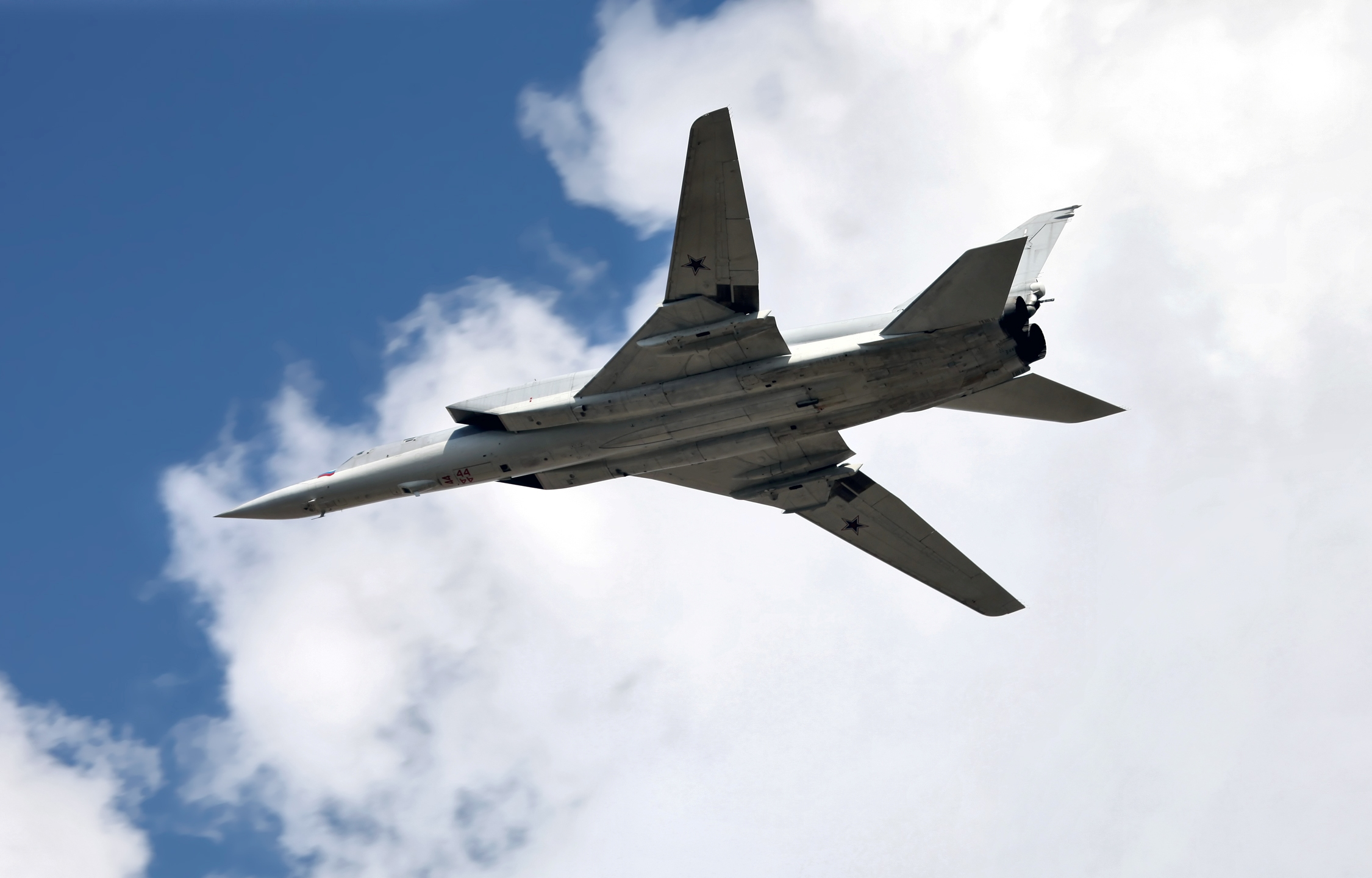 100th Anniversary of the Russian Air Force - Tupolev Tu-22M3.